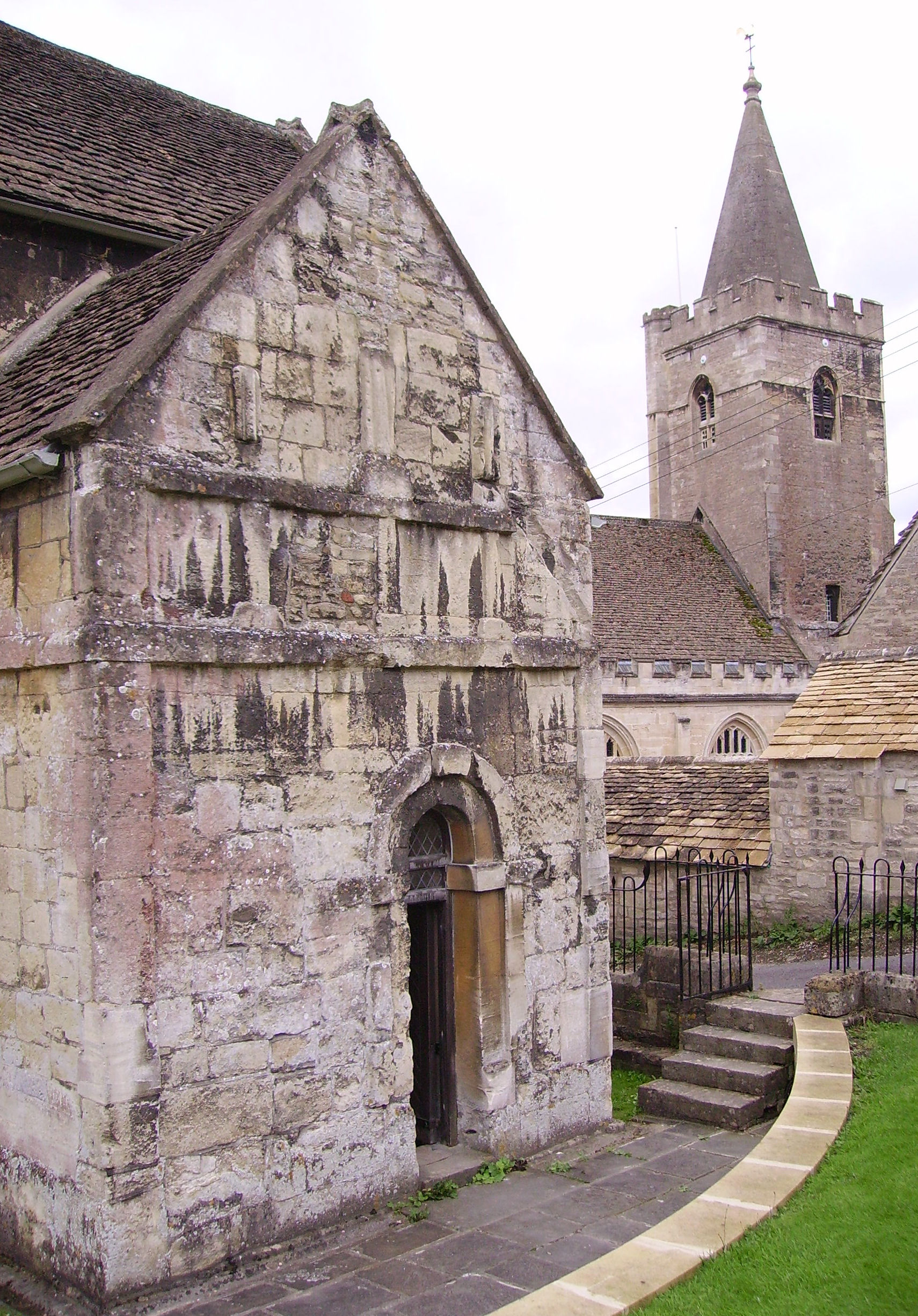 Bradford on Avon, Wiltshire, England showing St Laurence's Church in the foreground and Holy Trinity Church with its tower in the background.